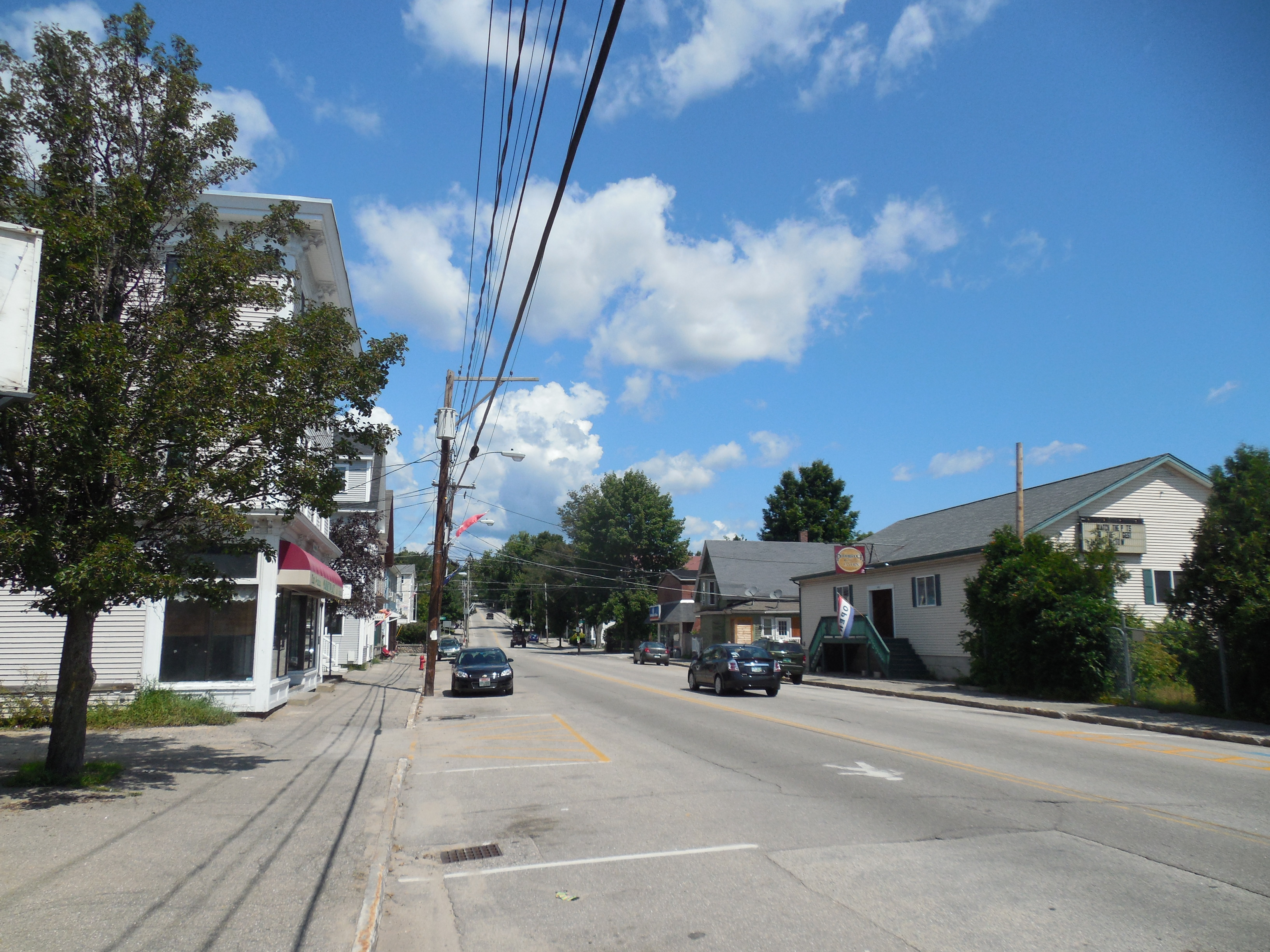 Main Street, Farmington New Hampshire